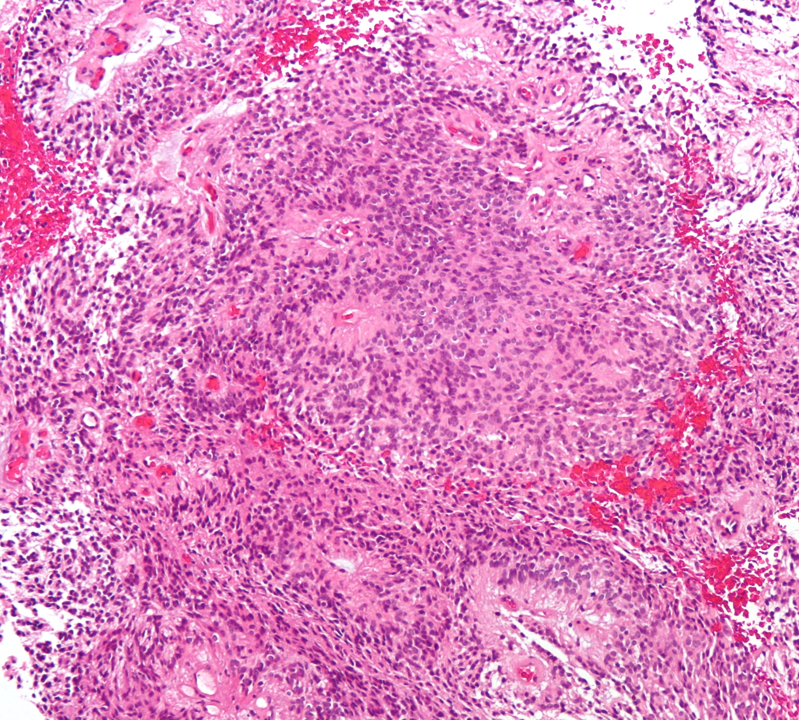 Micrograph of an ependymoma. H&E stain. Related images Intermed. mag.